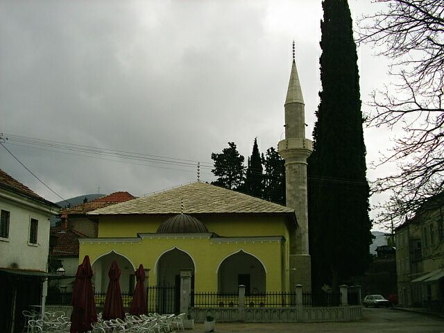 Trebinje, Bosnia and Herzegovina